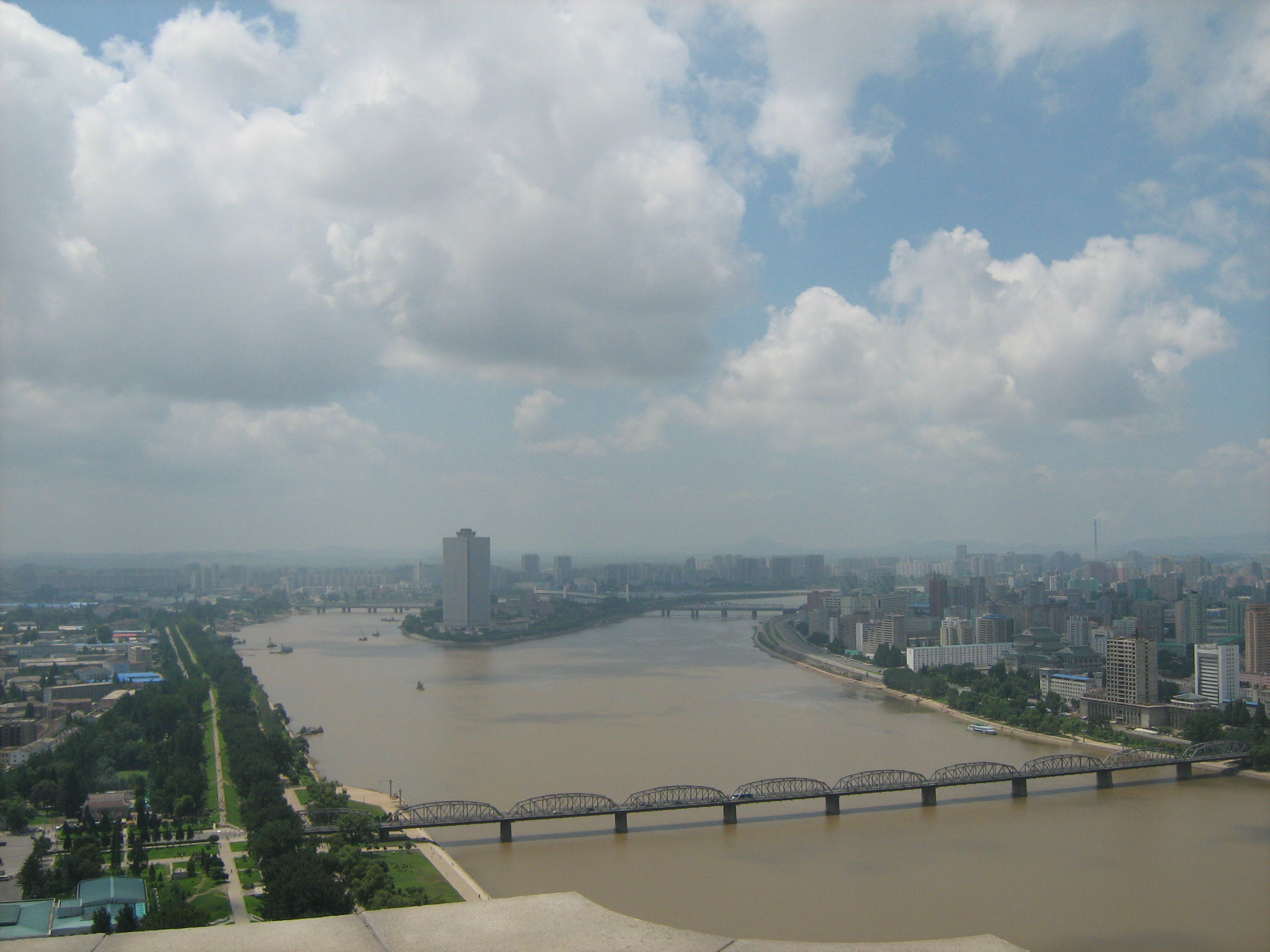 This shows the Taedong River, Pyongyang, North Korea, looking towards the Yanggakdo International Hotel from the Juche Tower.